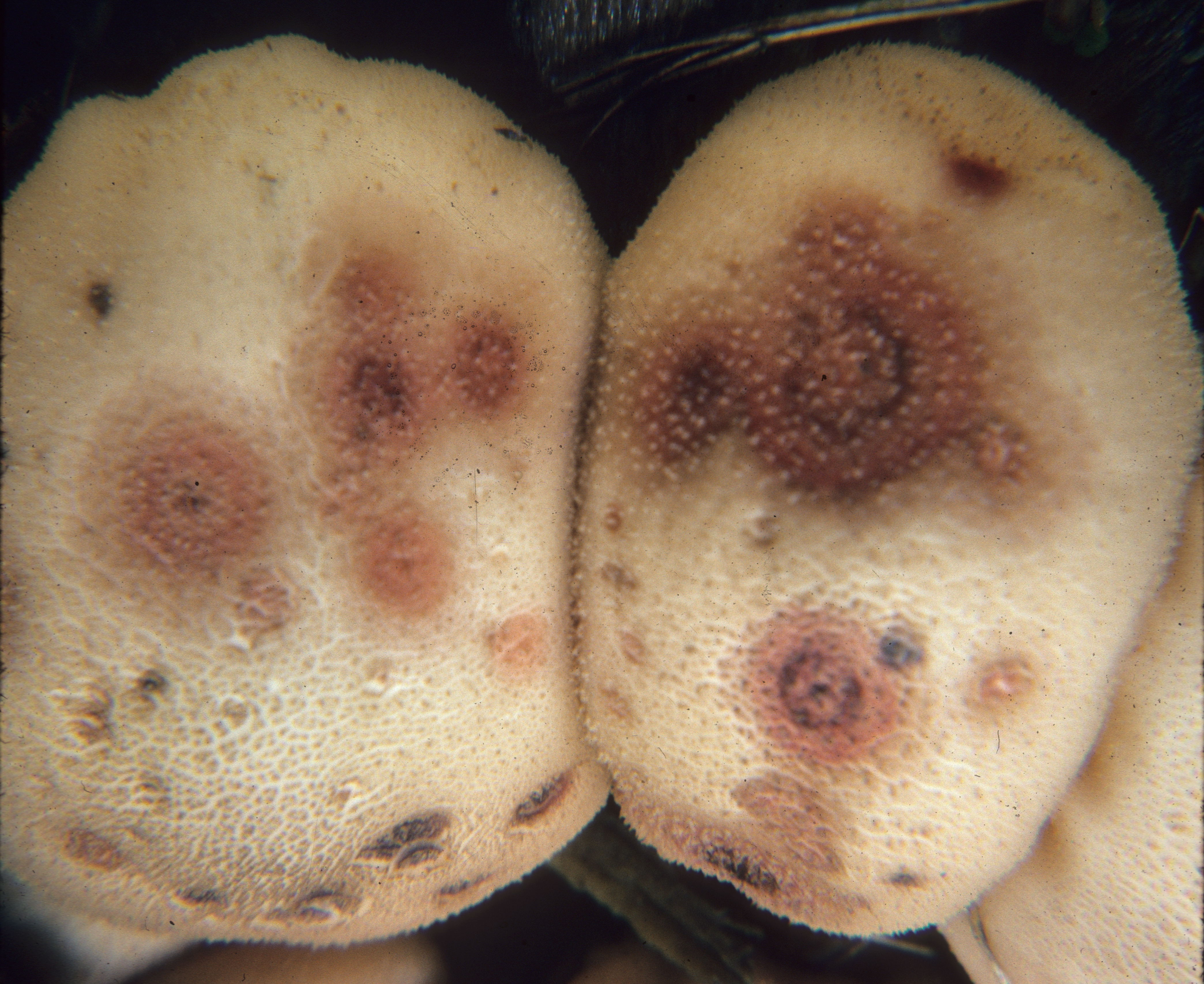 The fungus Epicoccum nigrum growing on the puffball mushroom Lycoperdon pyriforme. Specimen collected in Trumbull County, Ohio.